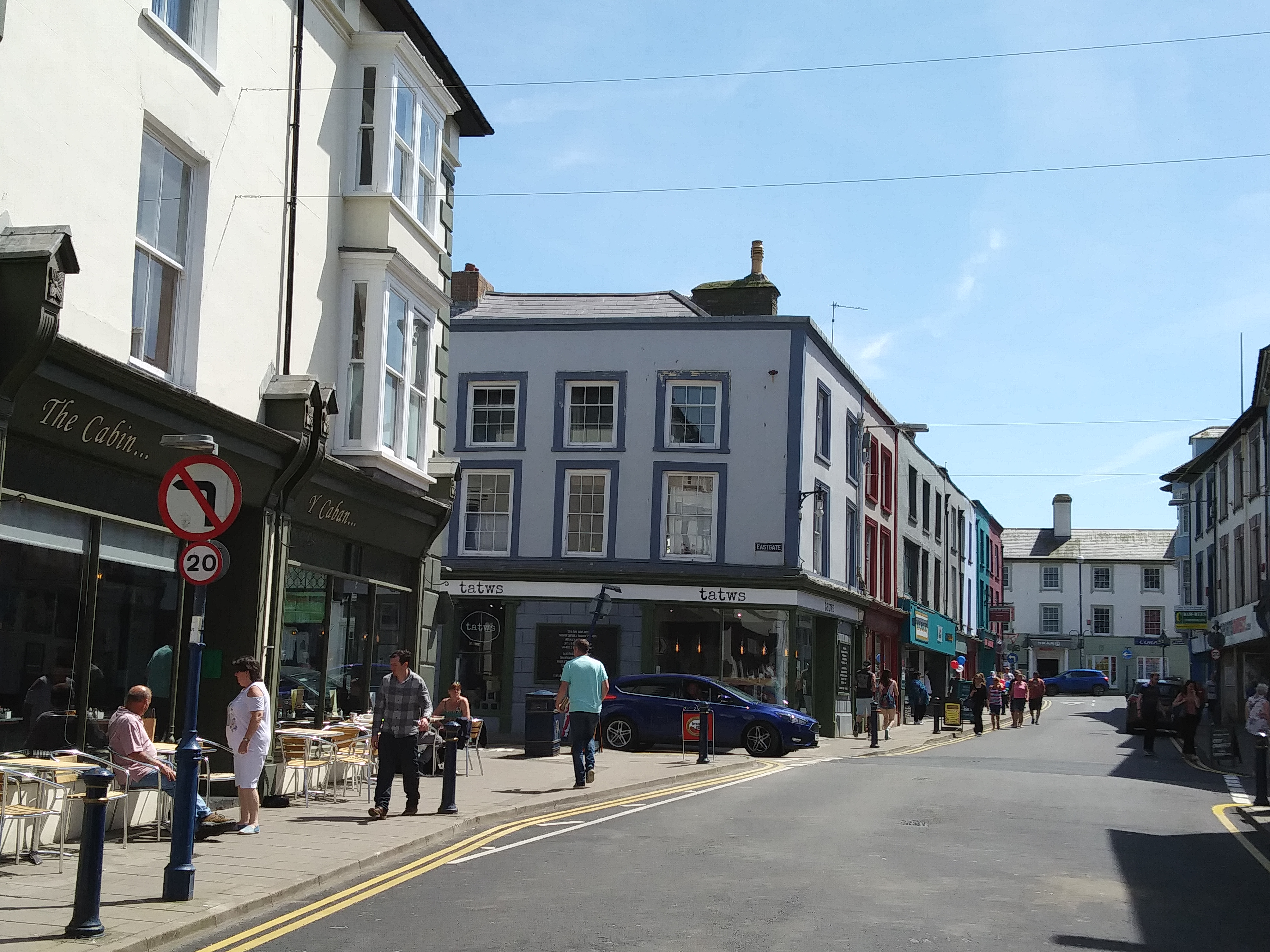 Pier St, Aberystwyth facing south